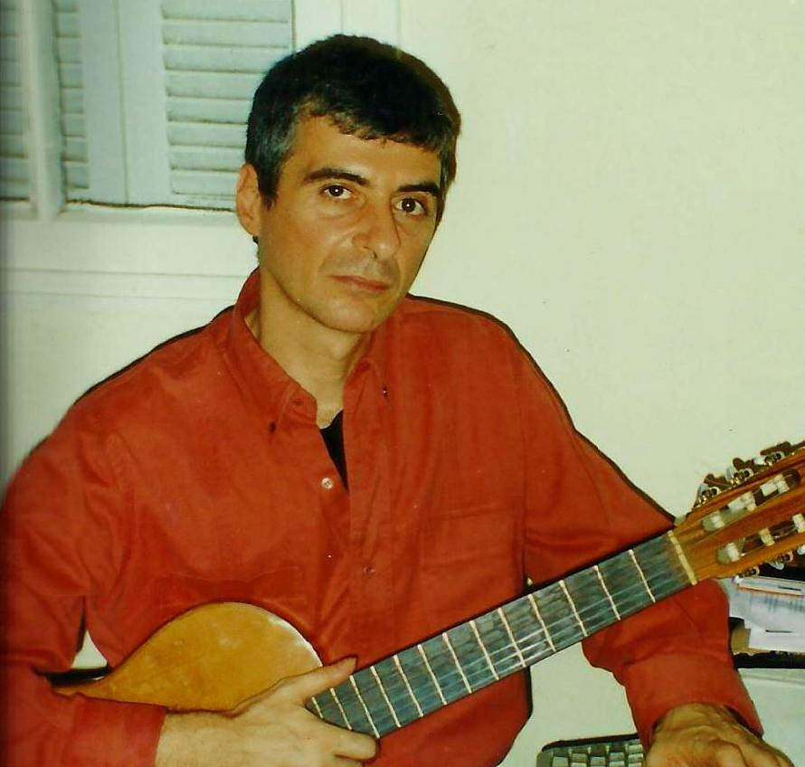 Henrique Mann at home